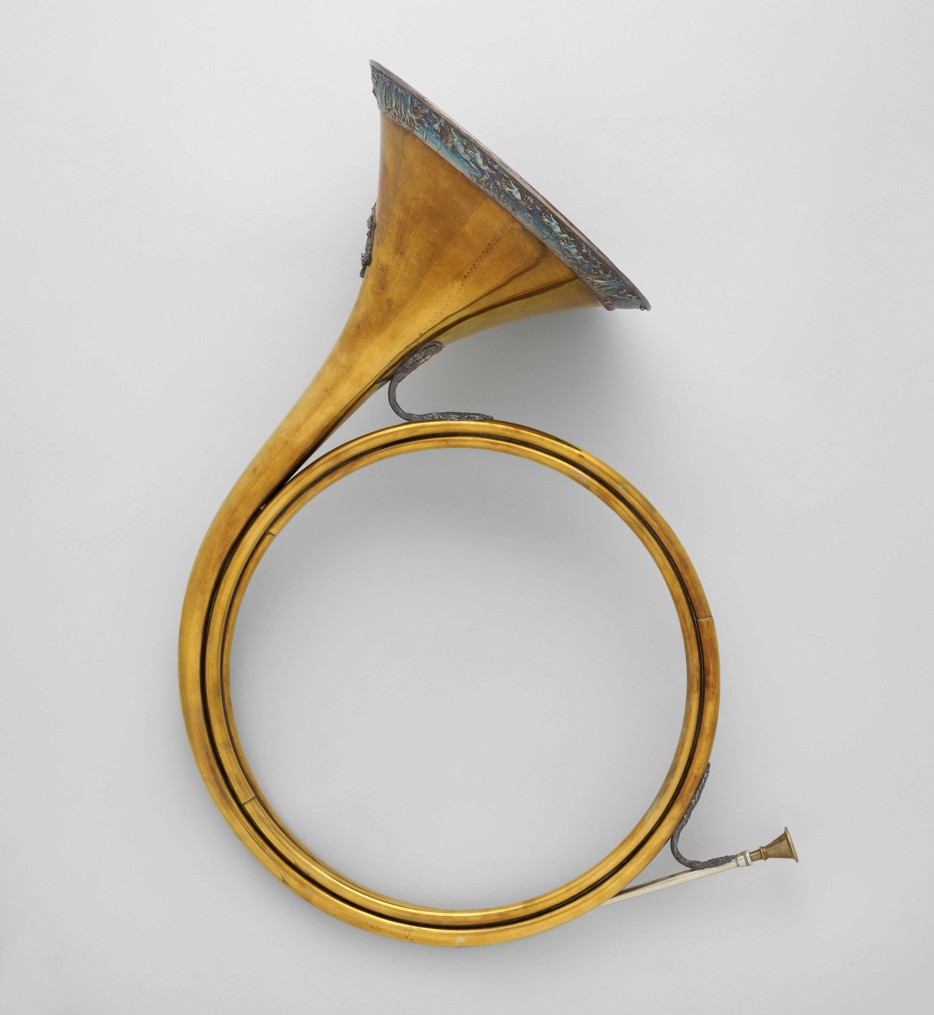 This horn is typical of those still used in the French hunt. It represents the final form of the Trompe d'Orleans, which was introduced in about 1831 following an order of the Count d'Orleans. In contrast to its forerunners, the trompe d'Orleans has a a smaller coil diamter. This handier size was made possible by the introduction of the English riding cap in France after the Revolution 1971/92 and the first Republic. This small cap enabled a horn with smaller coils to slip over the head. Francois Perinet is considered as the major figure who refined the new type giving it its final structure. The outfitting of the horn with a heavily decorated bell garland was developed under Perinet's successor, Joseph Pettex-Muffat, who took over the business in the late 1840s. The decor's creator was apparently H. Farnier in 1860. The decor features heavily silver plated reliefs on the garland and stays. The garland is a high relief with hunting scences, built up by electrotyping of copper and finishing by silver plating. The stays feature oak leaves and acorns. There is also a cartouche designed to bear the name of the prospective owner of the horn, It remained void. The bell interior is blackened, a feature of hunting horns designed to prevent reflections, or "dazzling", that would have frightened riders and game.